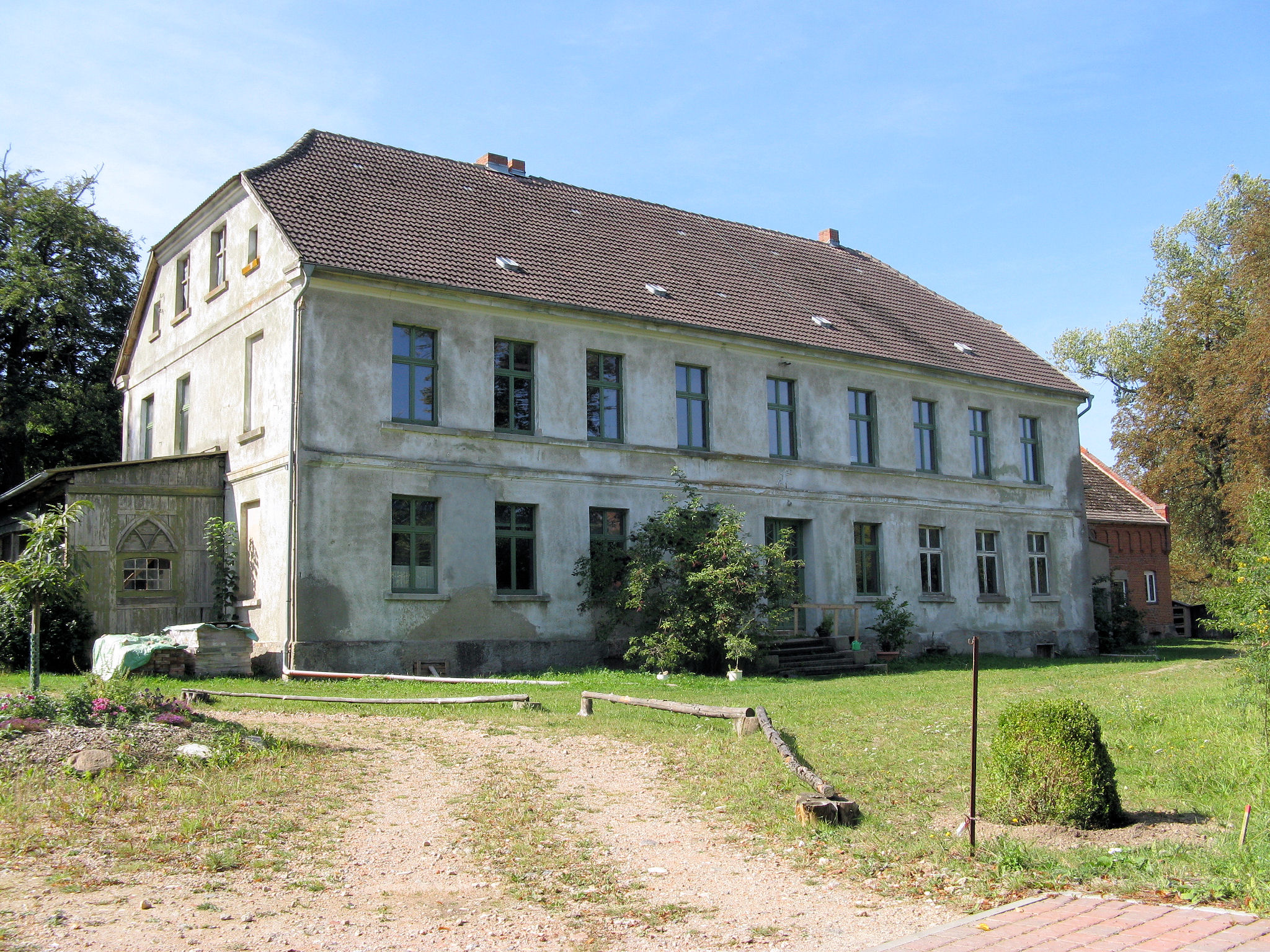 Manor house in Klaber, disctrict Güstrow, Mecklenburg-Vorpommern, Germany